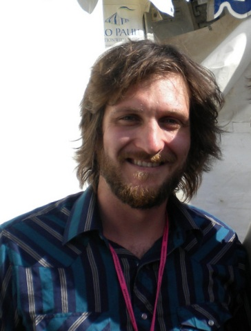 Paddy Milner at the Glastonbury Festival